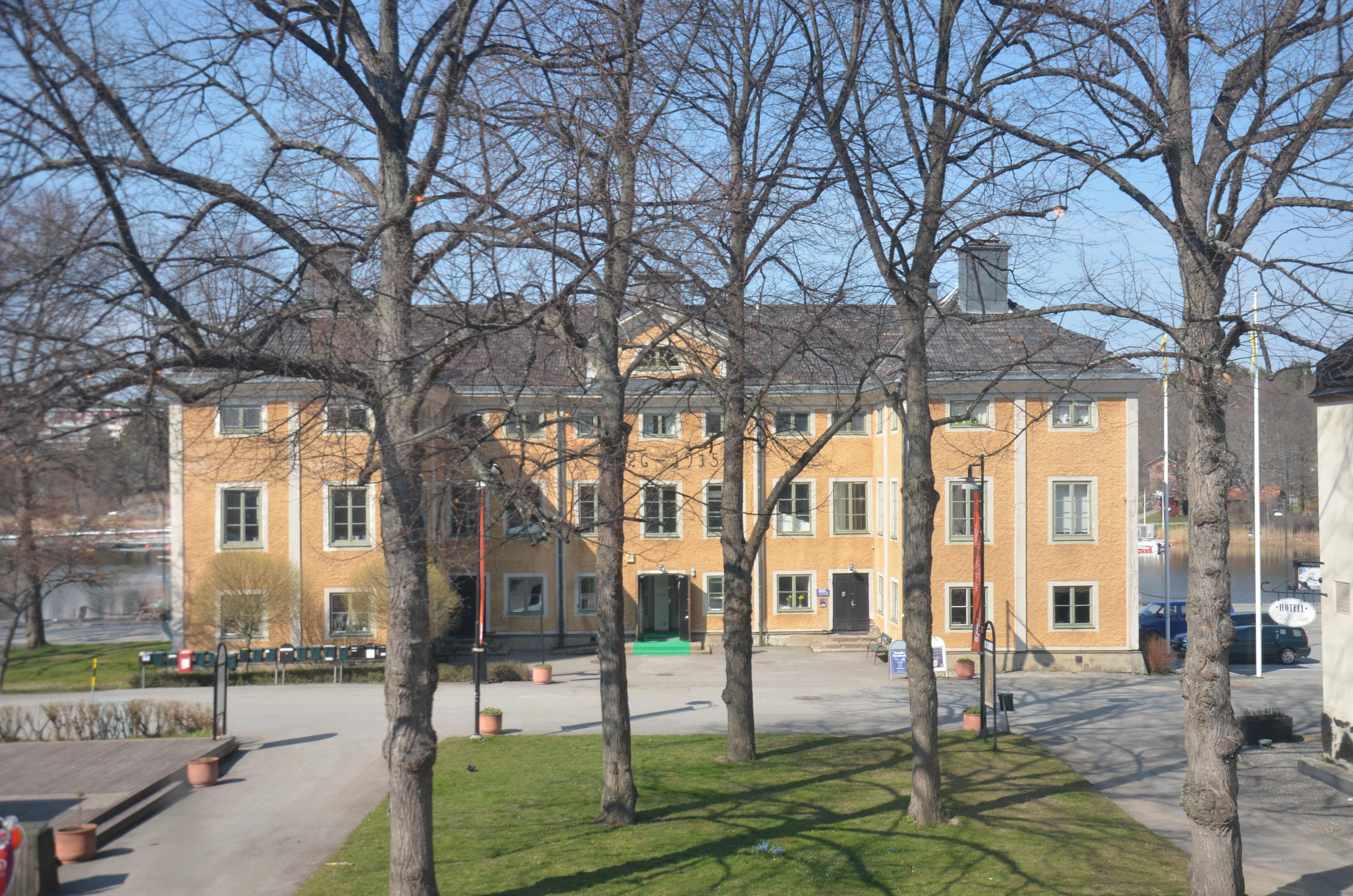 Gustavsbergs konsthall